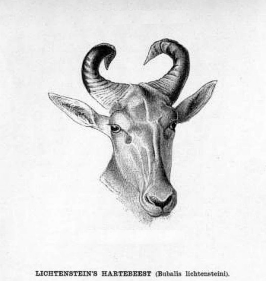 Drawing of Lichtenstein's Hartebeest (Alcelaphus lichtensteinii), from "Records of Big Game", Rowland Ward